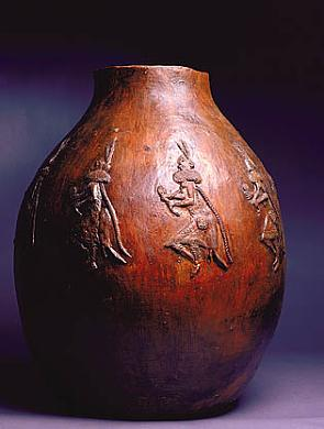 Pot with Dancers with Headdresses and Rattles, ca. 1985 by Faye Tso, fired clay with piñon pitch, 22 x 18 7/8 x 18 1/2 in. (55.9 x 47.9 x 47.0 cm) Smithsonian American Art Museum, Gift of Chuck and Jan Rosenak and museum purchase made possible by Ralph Cross Johnson 1997.124.177